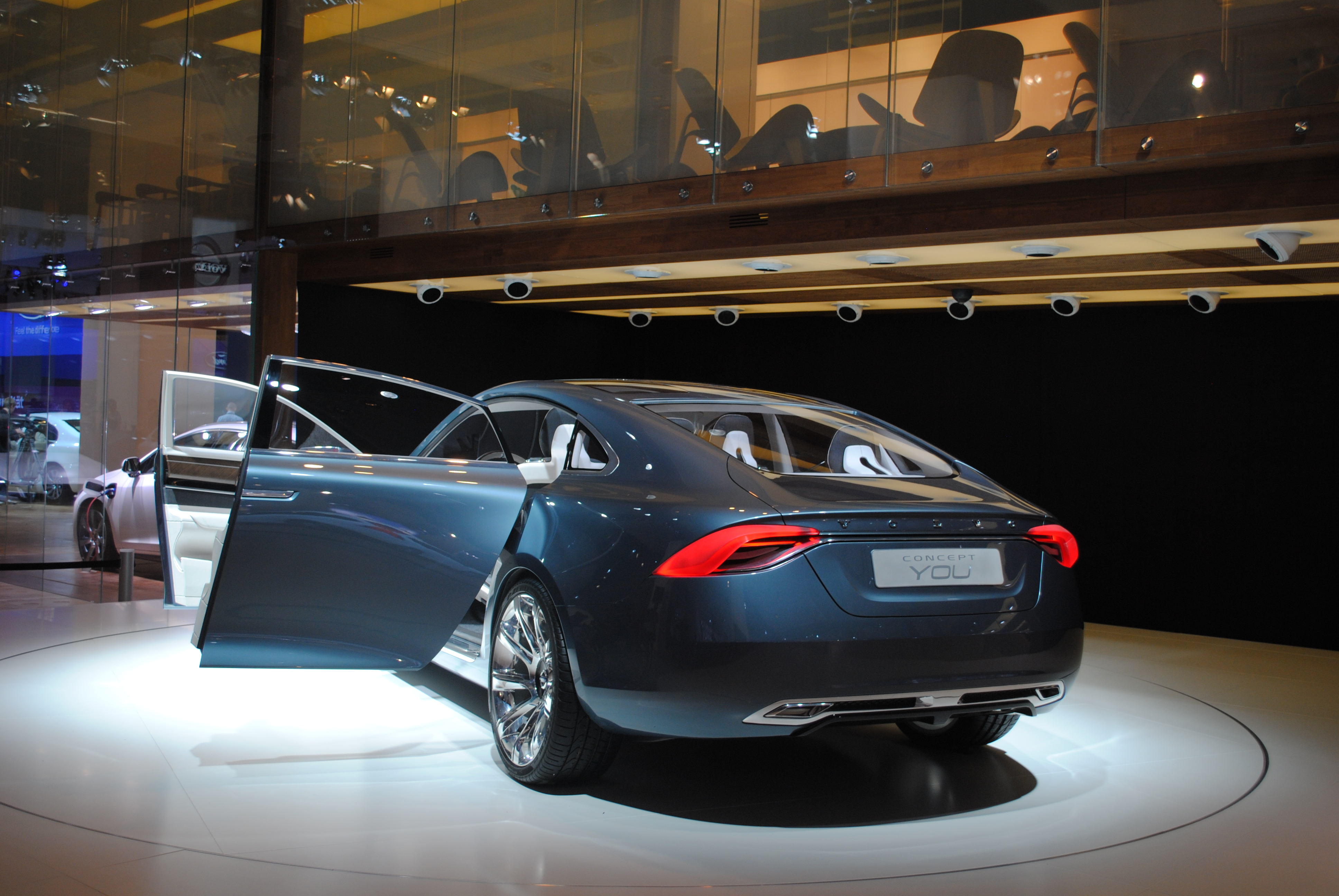 For more images and info, check